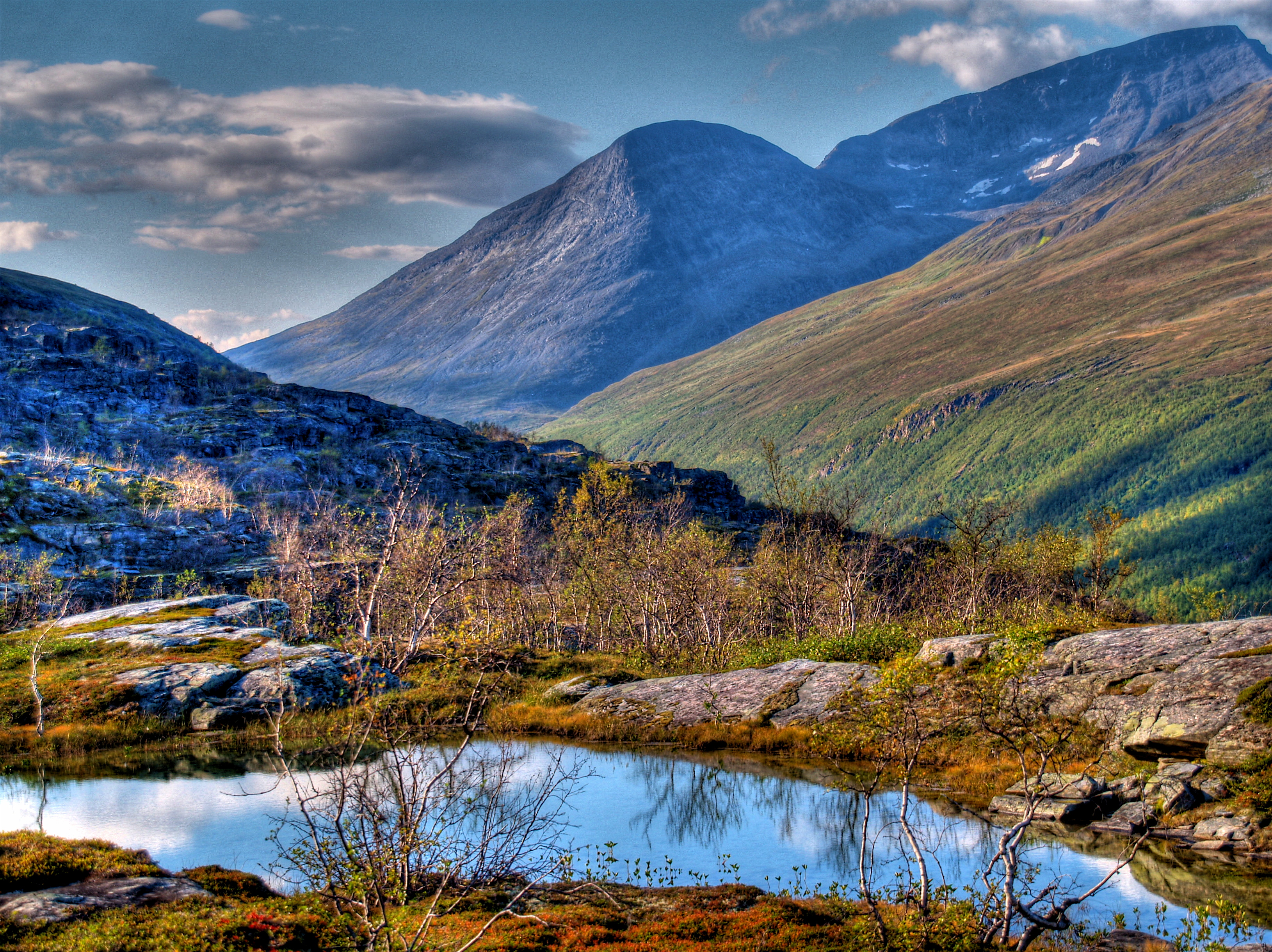 A small mountain pond and fells surrounding Bárrás. August 2006. This photo made #7 on Flickr's Explore! on Jan 7 2008.